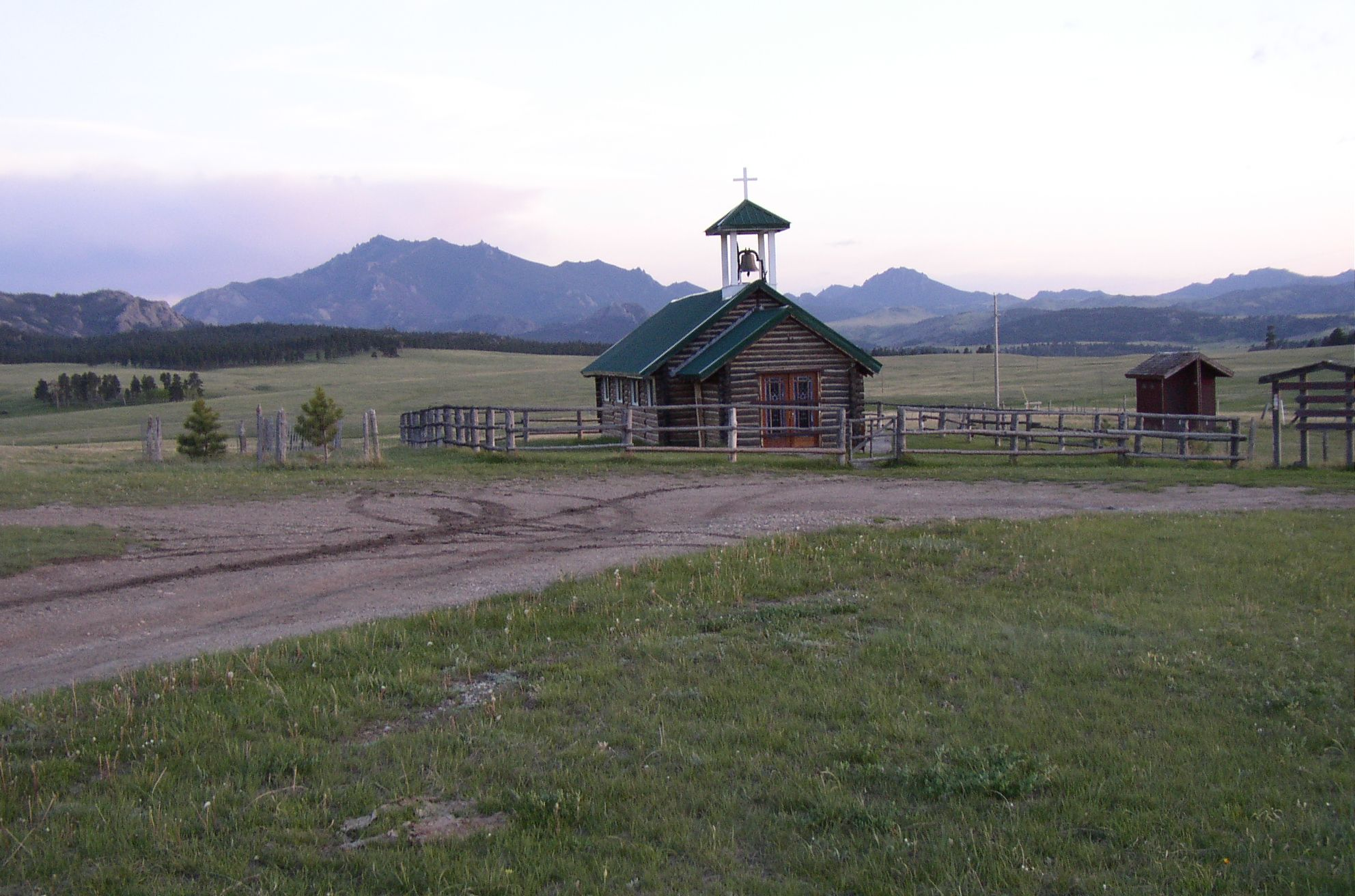 The Esterbrook Chapel, in Esterbrook Wyoming, USA